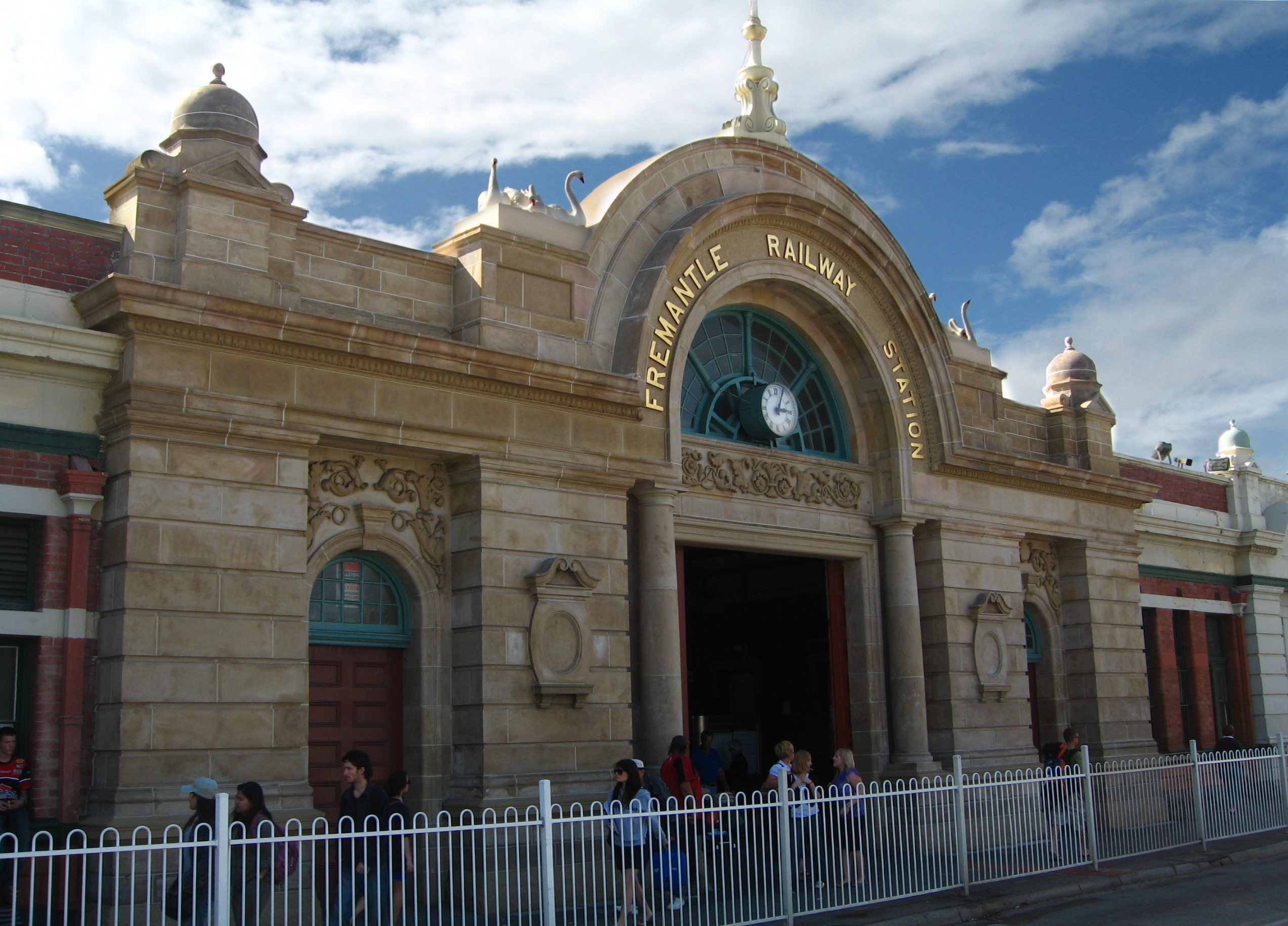 Fremantle Railway Station, Western Australia.